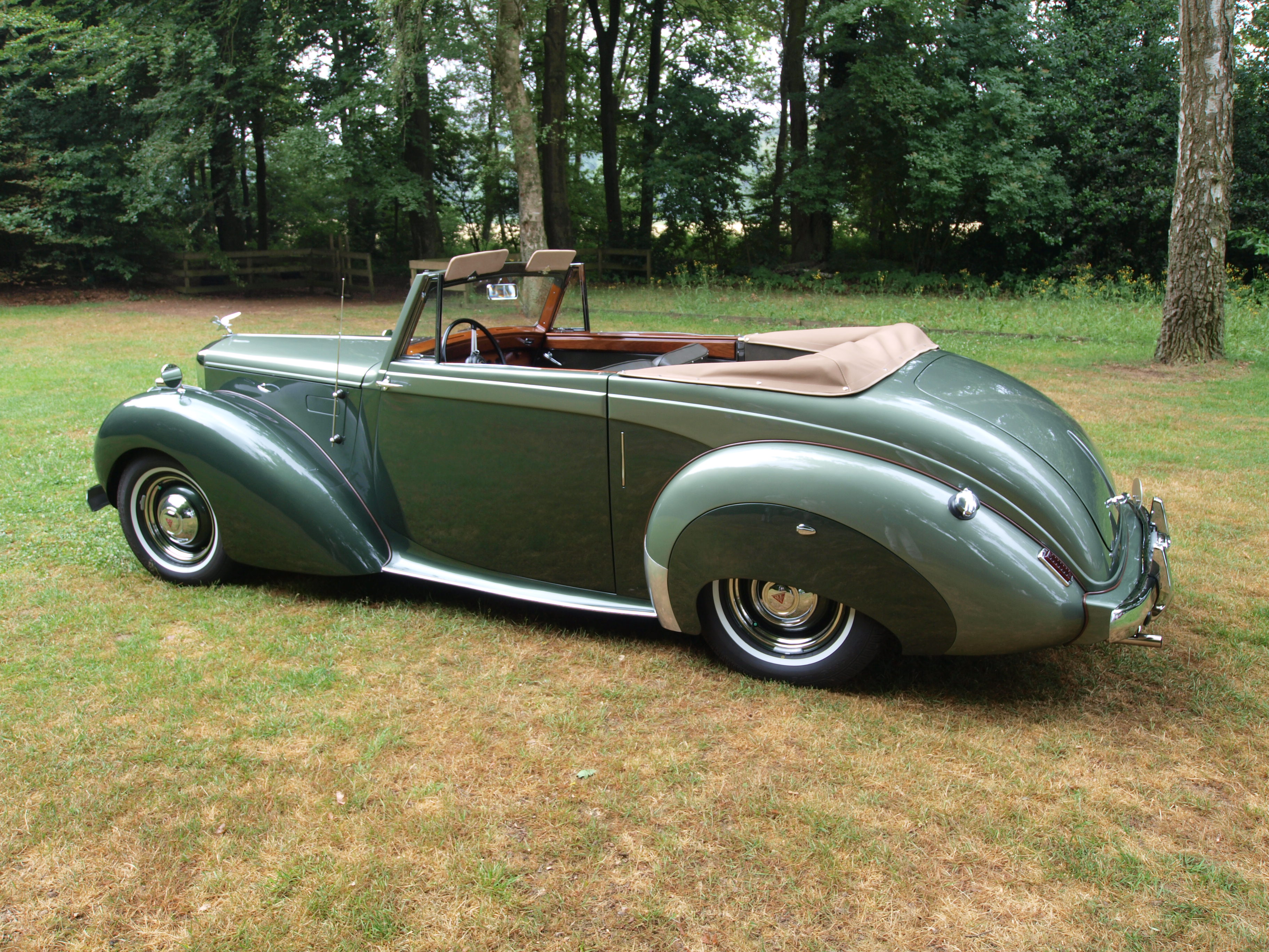 1953 Alvis TA 21 DHC